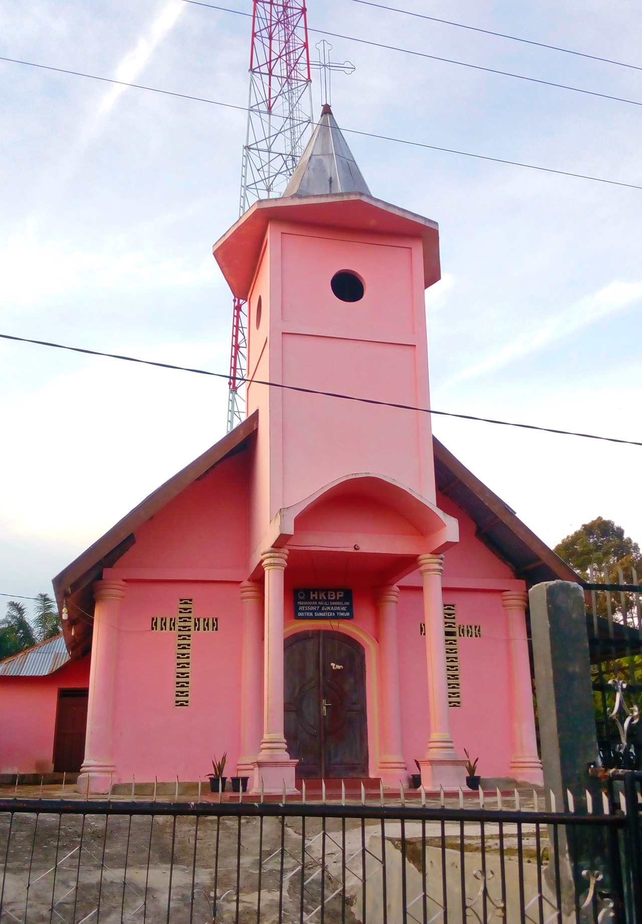 HKBP Parsaoran Nauli Simbolon, Church in Talun Kondot, Panombeian Panei, Simalungun